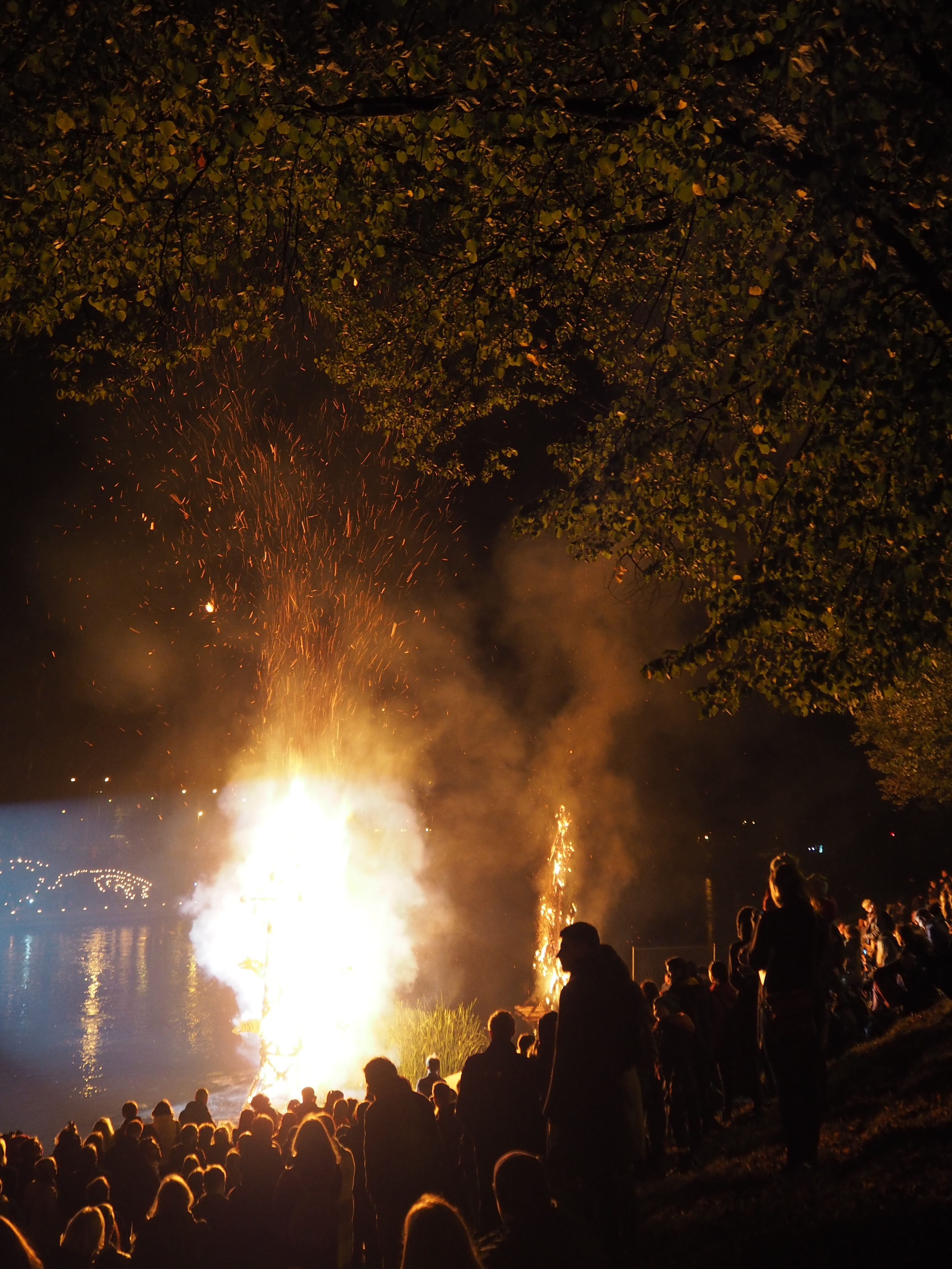 September equinox in Vilnius, 2016